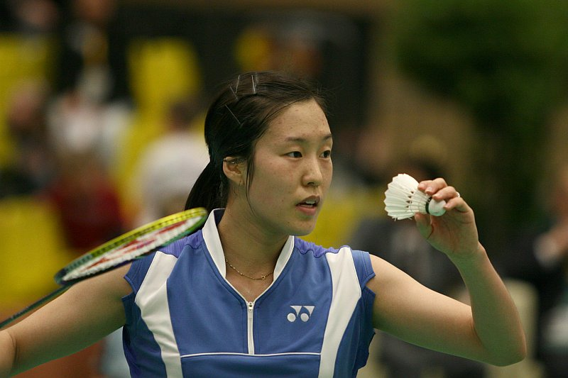 Jae Youn Jun